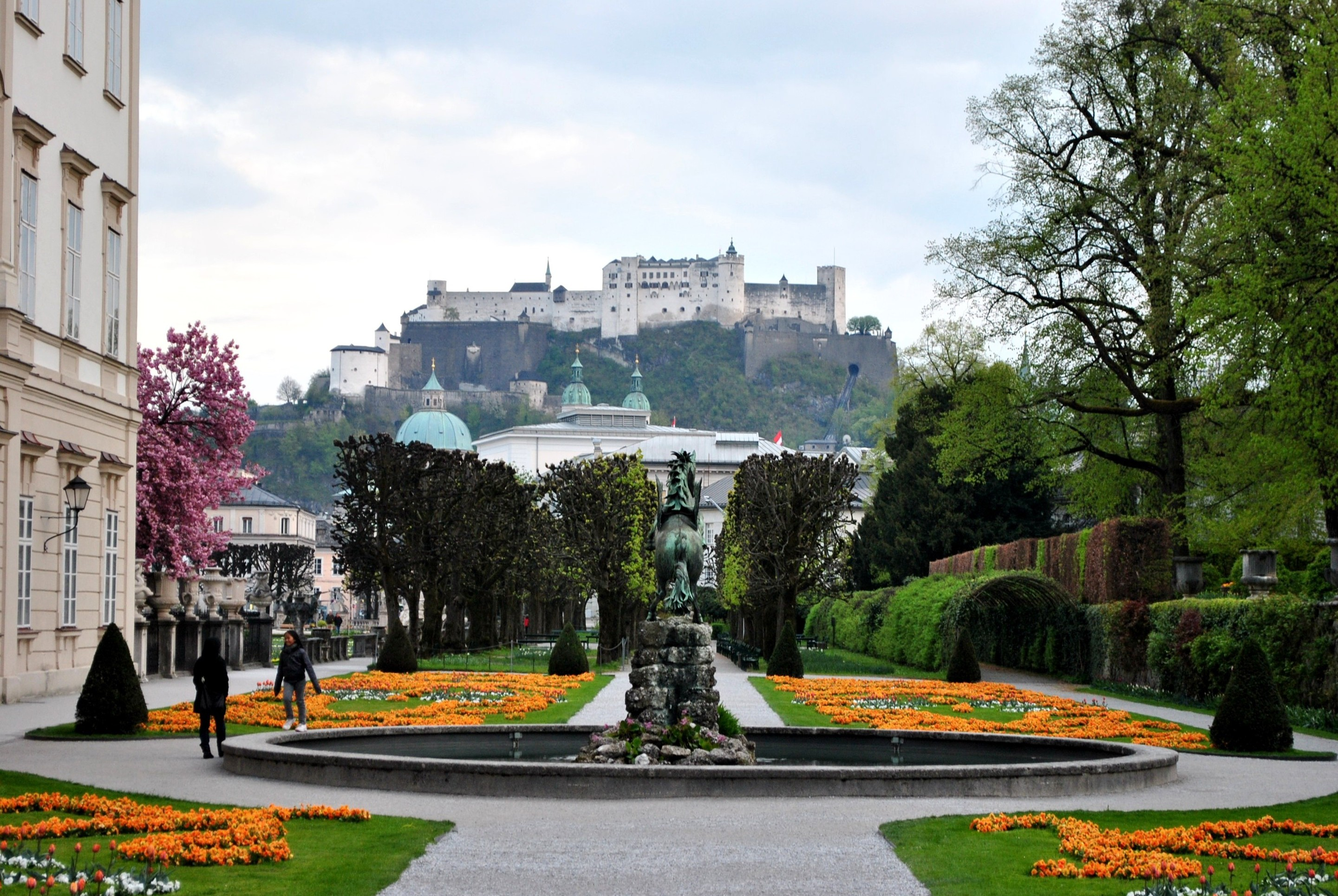 Mirabell garden, Cathedral dome and the Hohensalzburg castle.